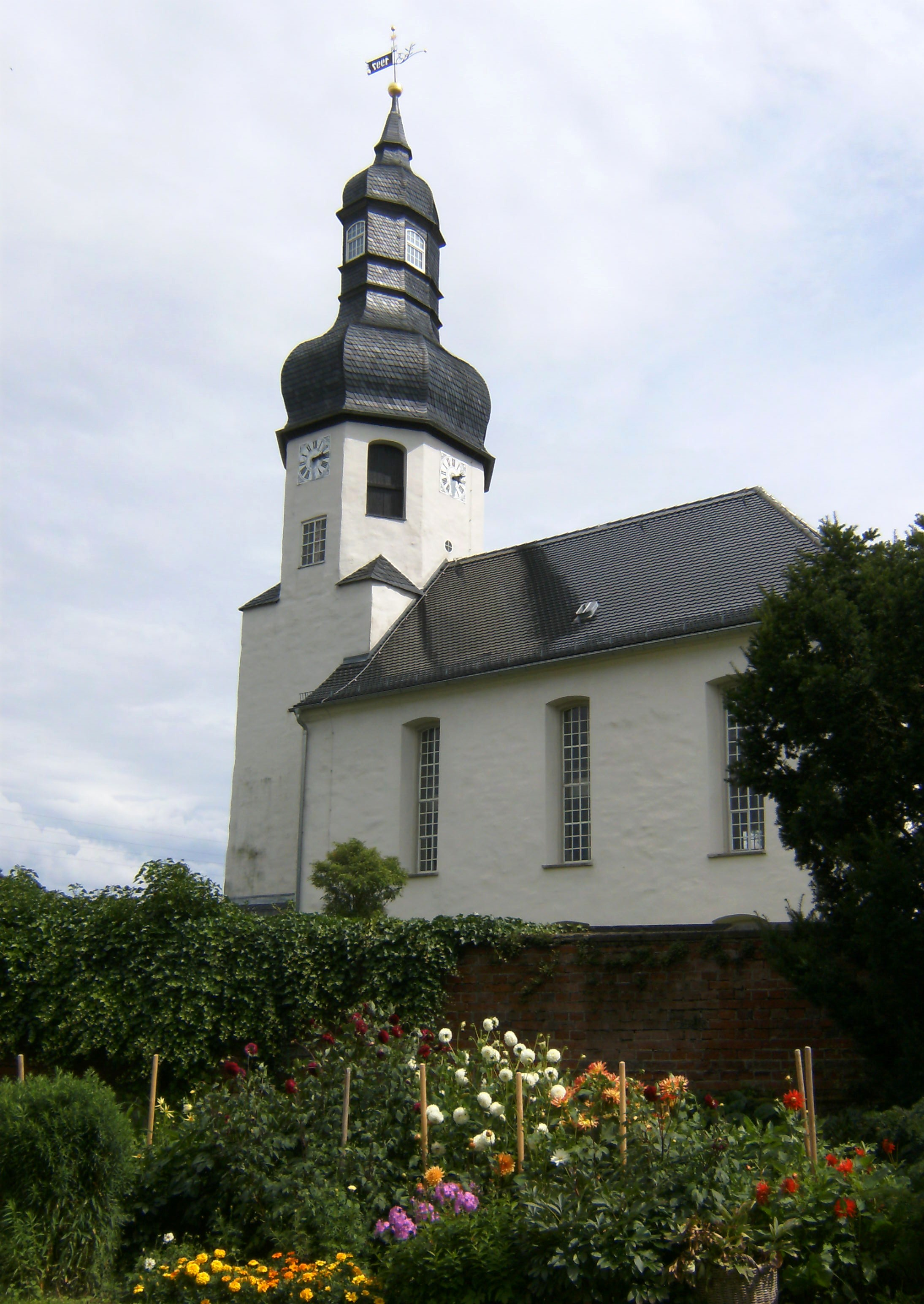 Church of Korbußen in Landkreis Greiz, Thuringia.